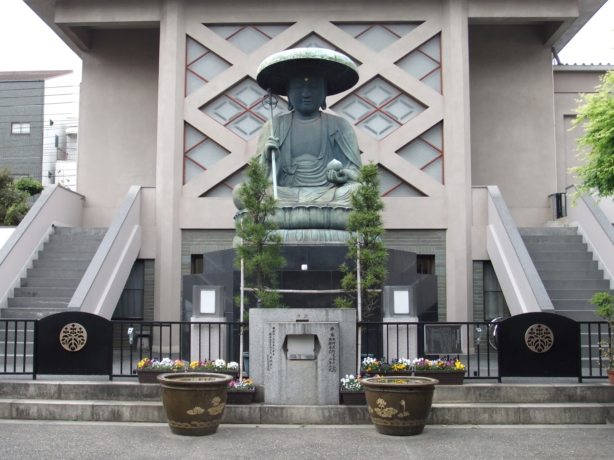 Jizo-Bosatsu (Ksitigarbha) at Tōzen-ji temple in Taito-ku, Tokyo.